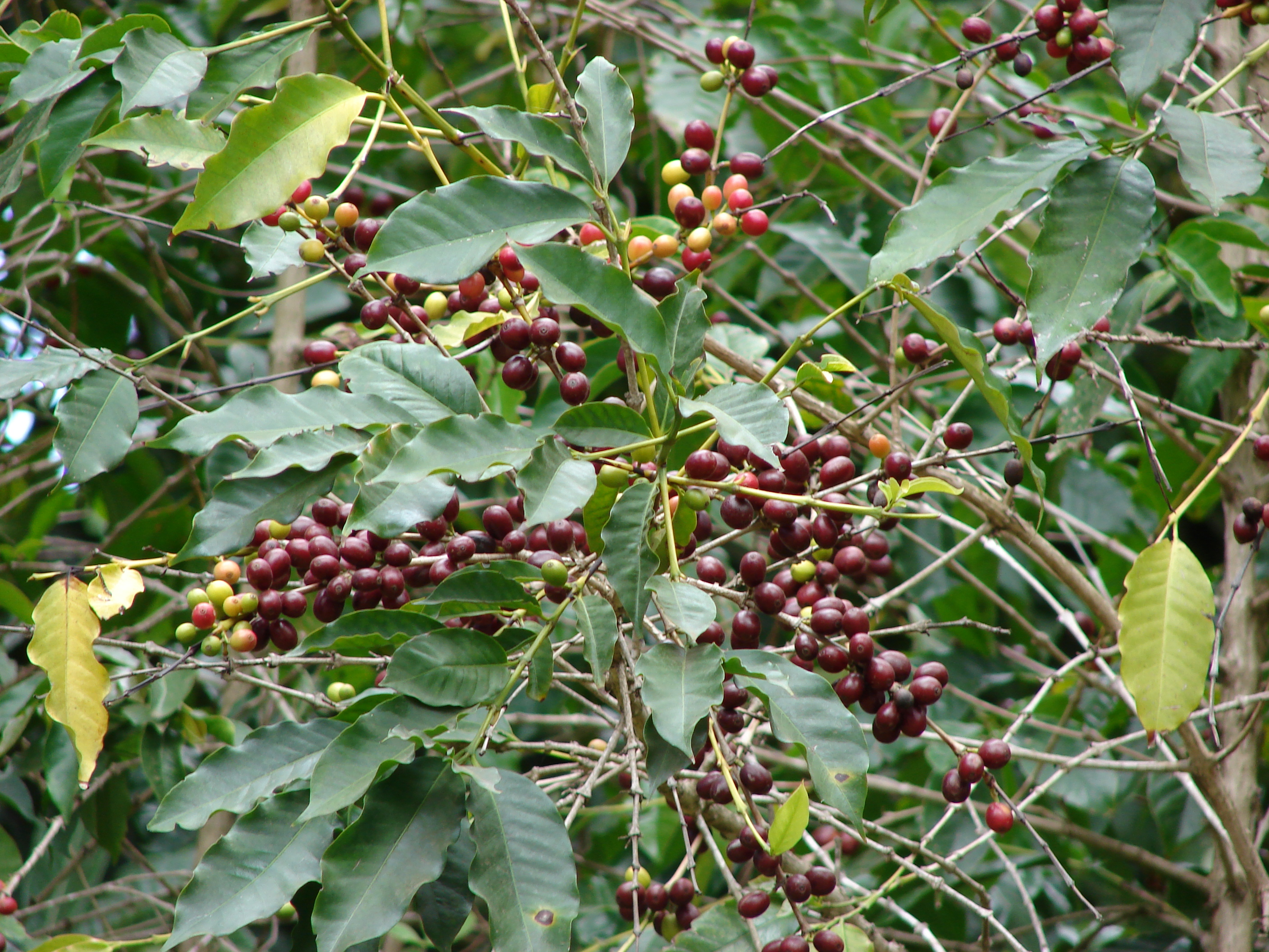 Coffea arabica (fruit and leaves). Location: Maui, Olinda